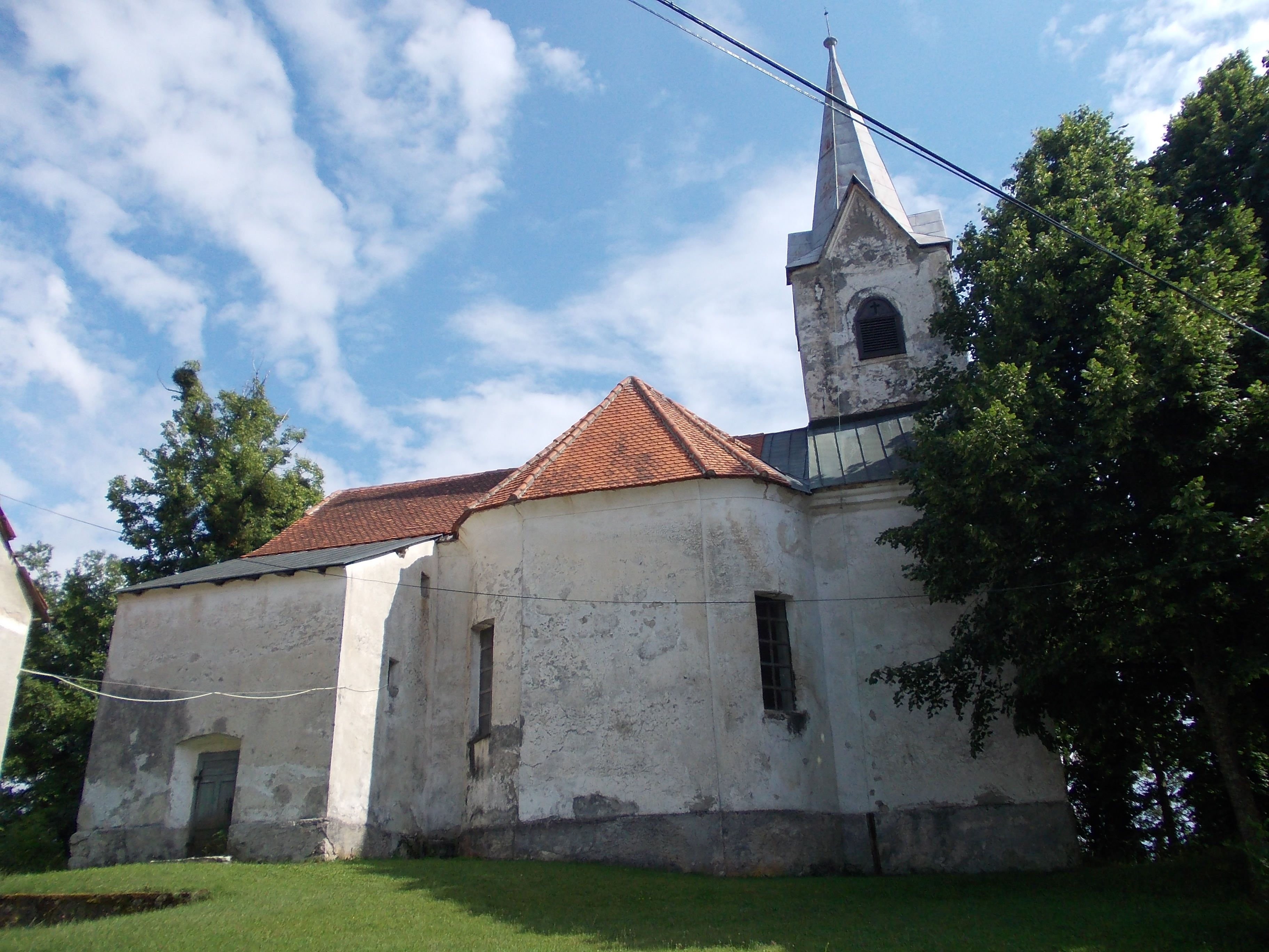 St. Oswald's Church (Pečice)